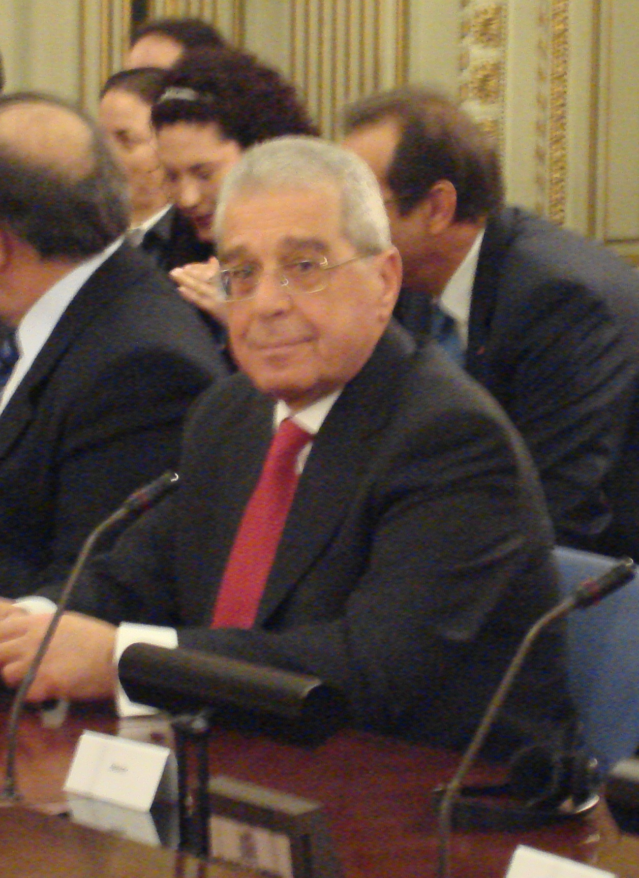 portrait of Aldo Cosentino